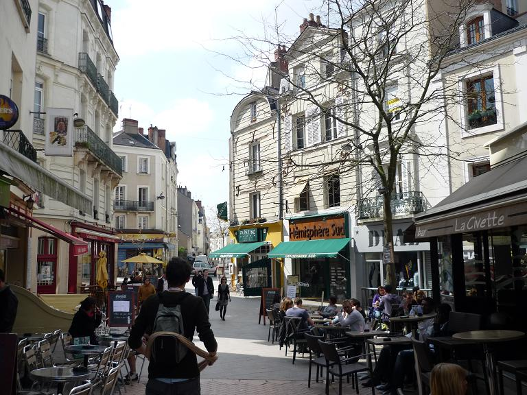 Place Romain, crossroad between streets du Cornet, des Poëliers, Saint-Georges, Saint-Laud, Bodinier and Valdemaine. Angers, Maine-et-Loire, Pays de la Loire, France.